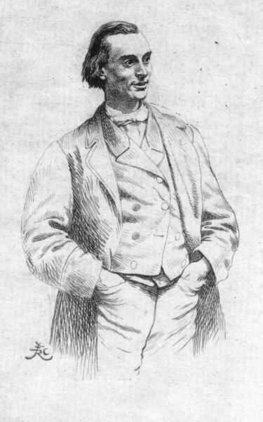 French writer, poet and playwright Albert Glatigny (1839-1873)